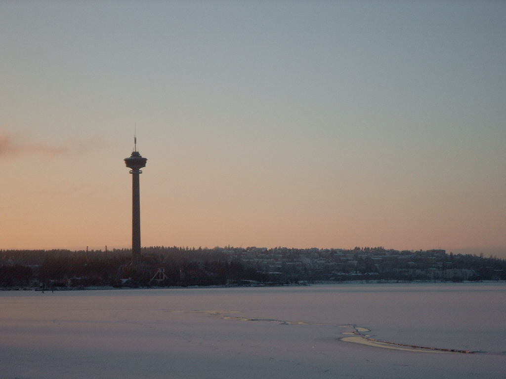 Näsinneula observation tower and the frozen Näsijärvi lake in Tampere, Finland